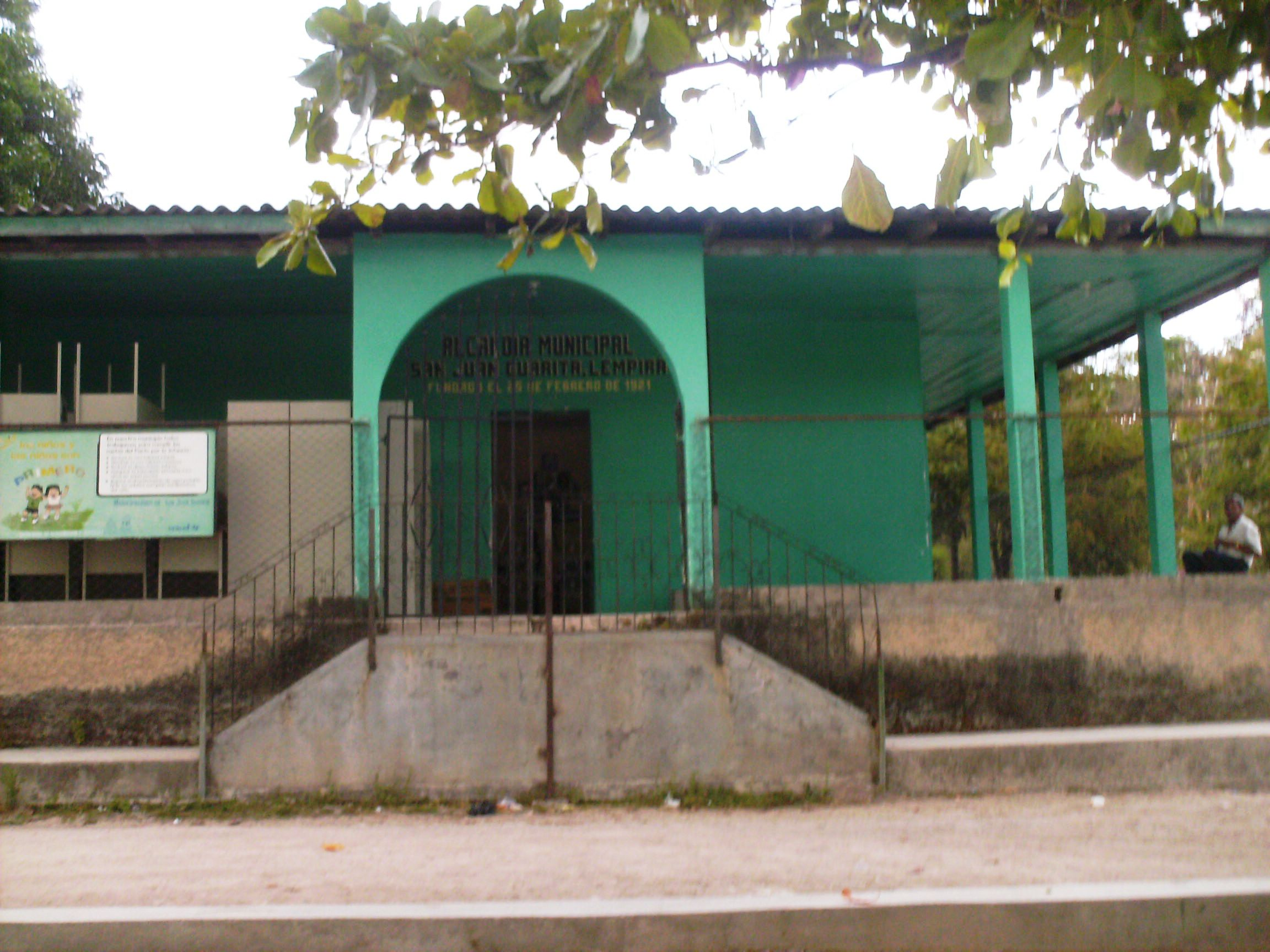 Town hall in San Juan Guarita, a municipality in the Honduran department of Lempira.